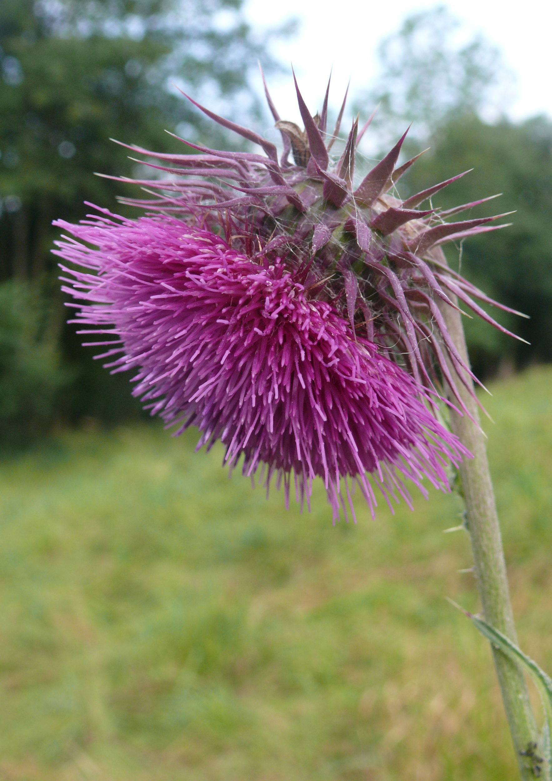 Carduus nutans, Hohenlohe, Germany